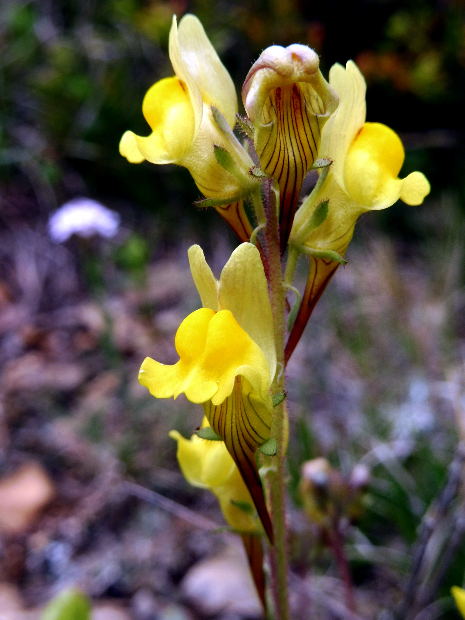 Linaria supina. In Montsec de Rúbies (Noguera-Catalunya). To 1.380 m. altitude This is a a photo of a natural area in Catalonia, Spain, with id: ES510192